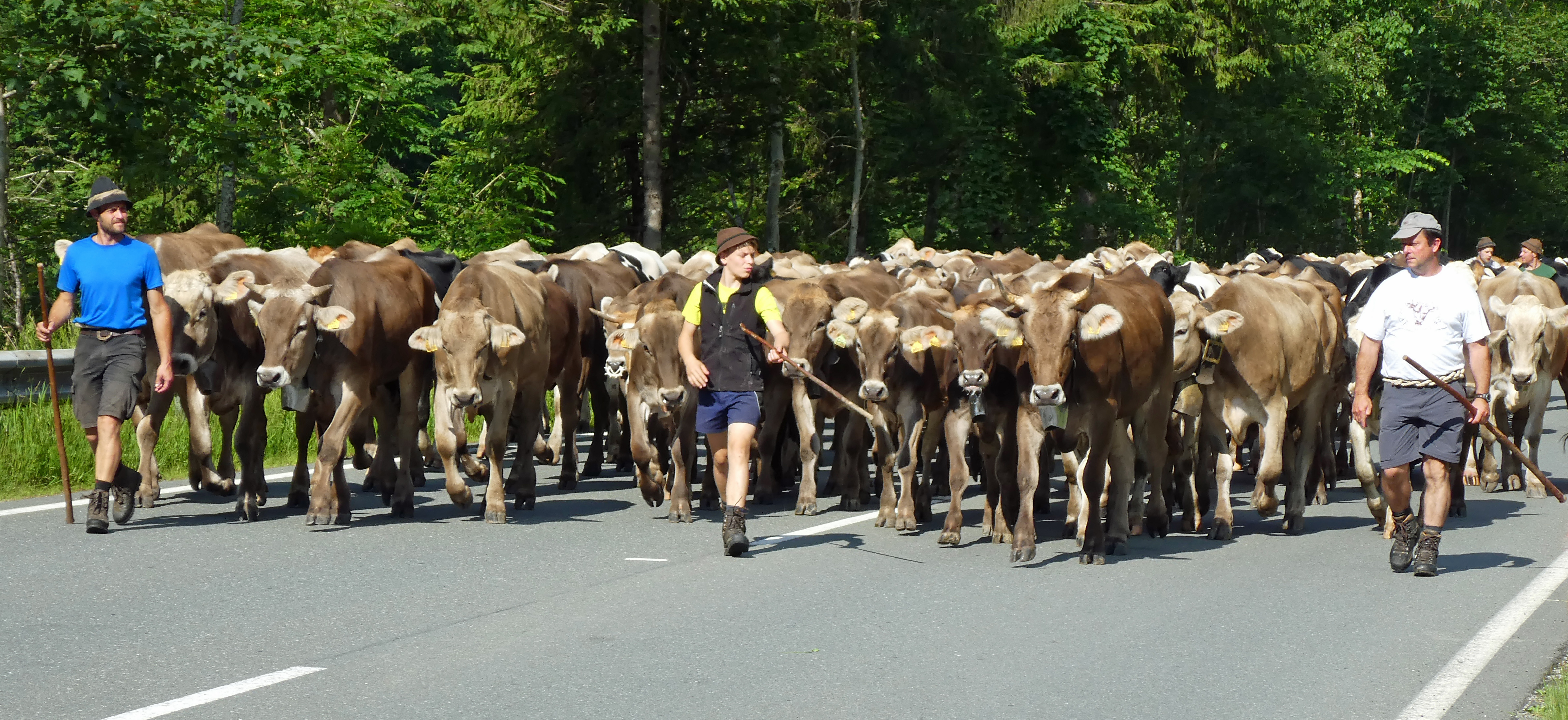 A herd of cows on the street near Mellau, Austria